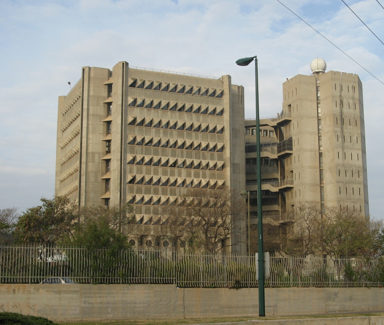 בניין של אוניברסיטת תא